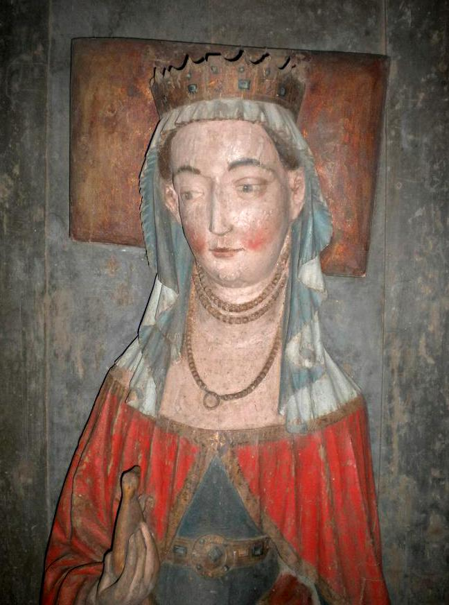 Portrait detail of Queen Richardice of Sweden on the contemporary grave monument of her husband King Albert of Sweden in Doberan Minster, as released by image creator Ristesson; Place: Bad Doberan, Germany